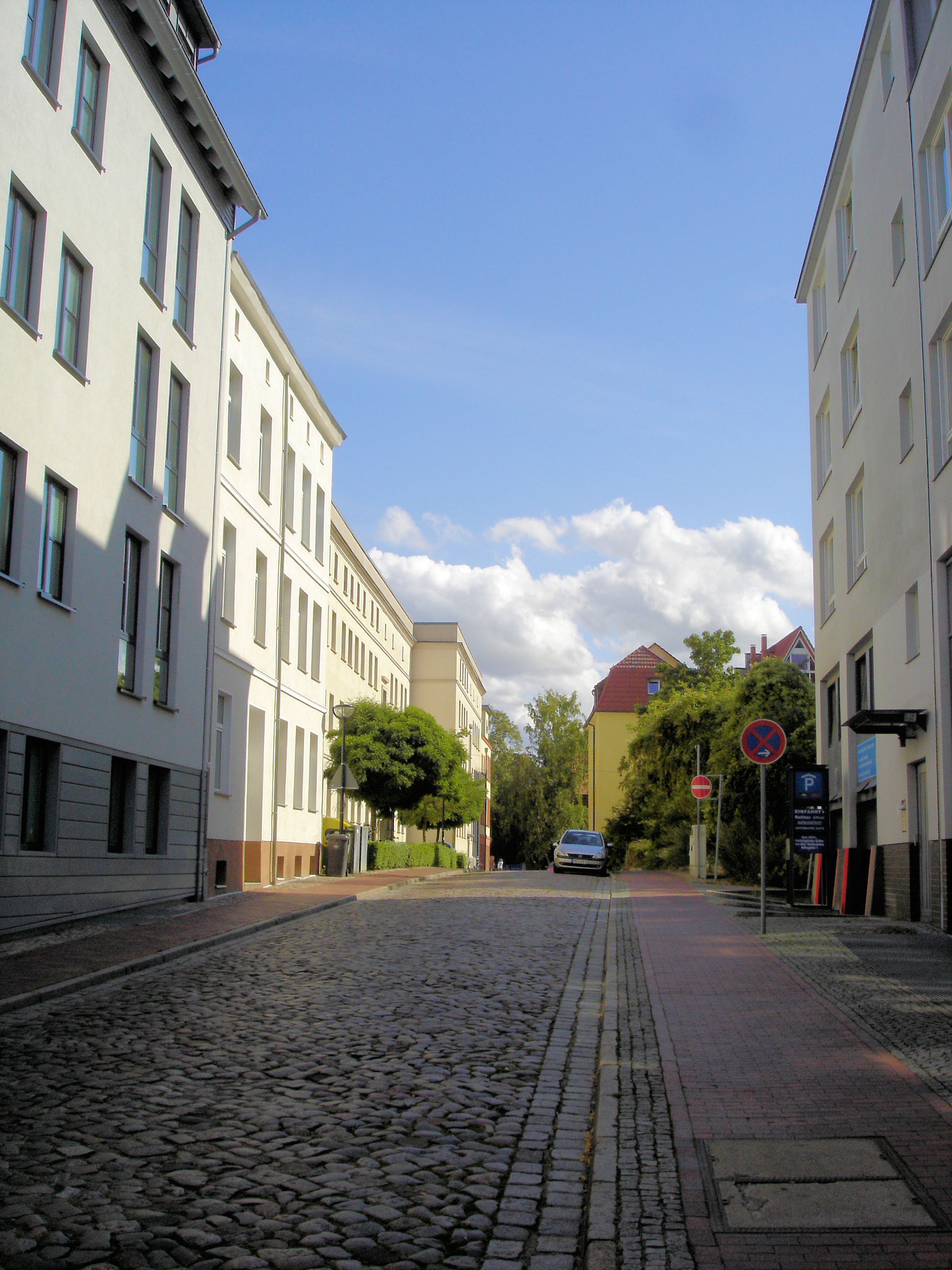 Street in the historic city of Rostock